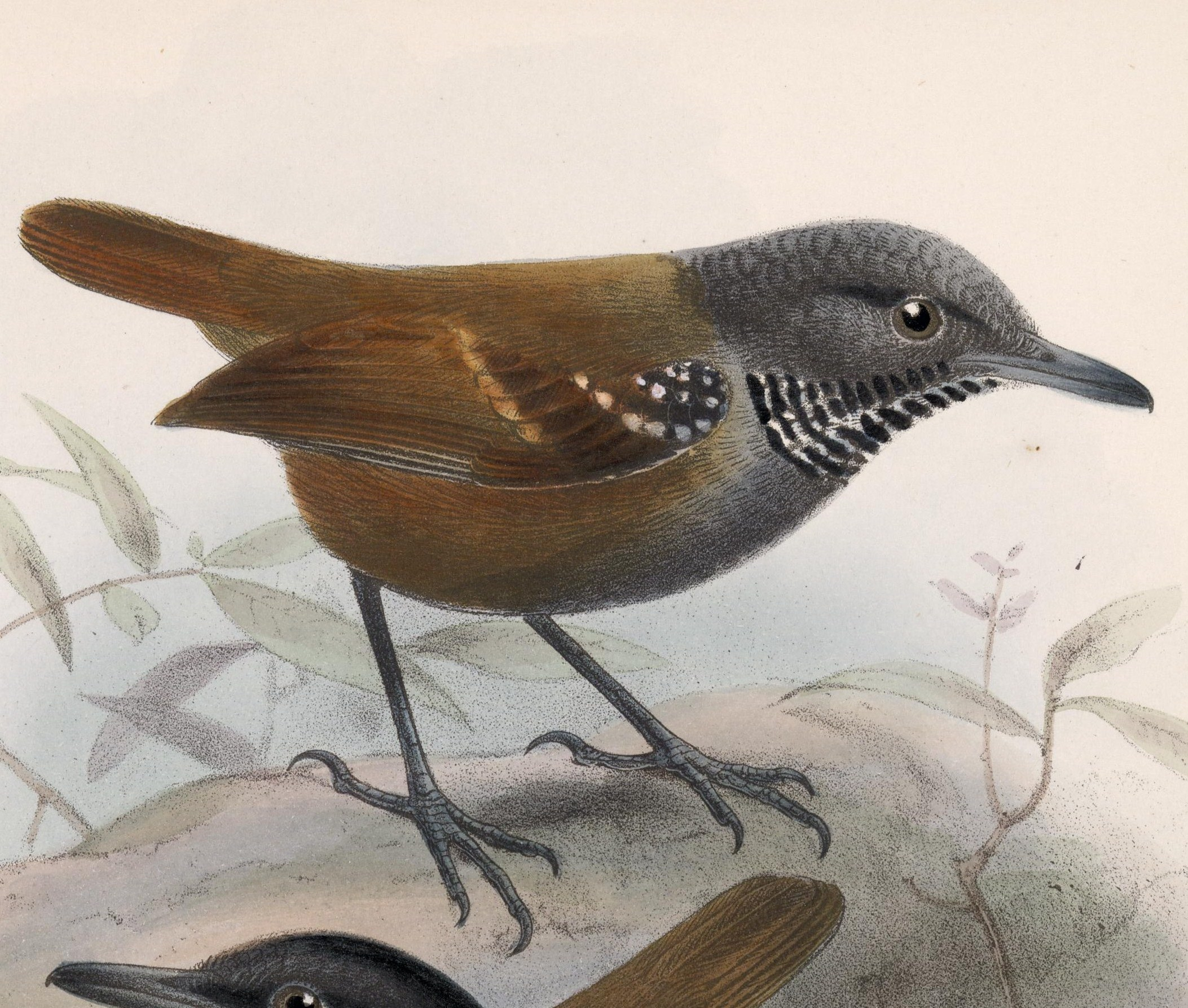 « Myrmeciza laemosticta » = Myrmeciza laemosticta (Dull-mantled Antbird)